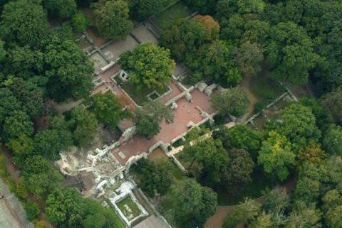 Margitsziget, Budapest, Hungary, aerial photography